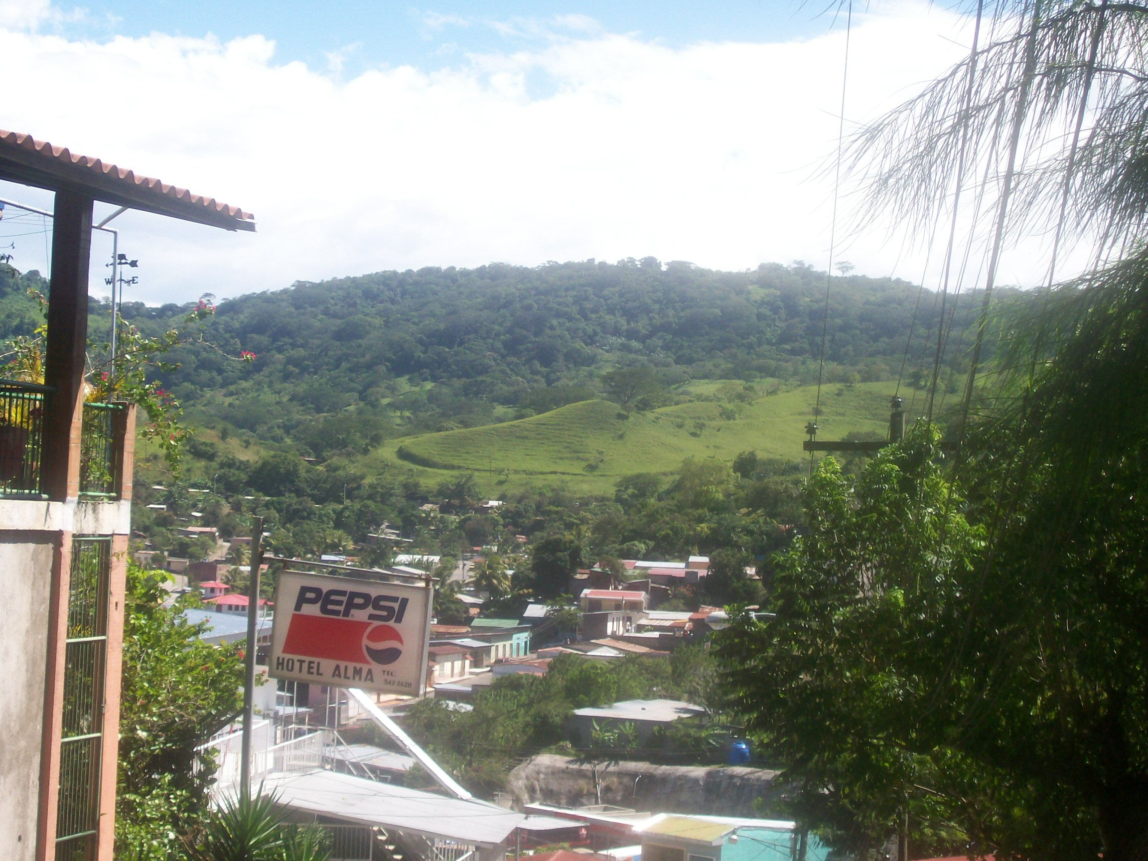 View of Boaco, Nicaragua